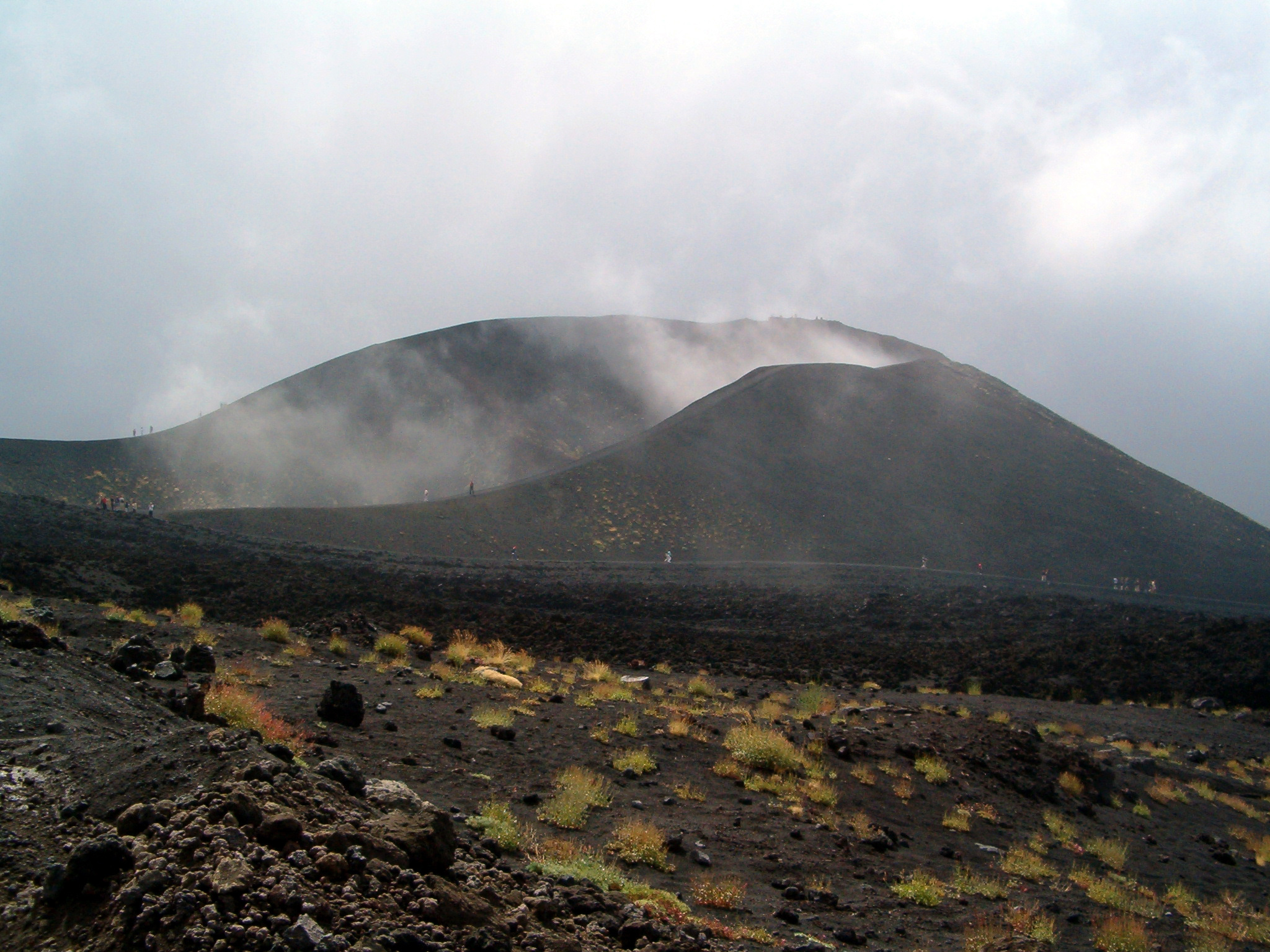 Parasitic cone on the Mount Etna at the Rifugio Sapienza (Monte Silvestri).